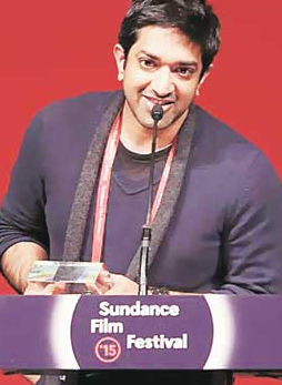 Prashant Nair receives the Audience Award, Sundance 2015